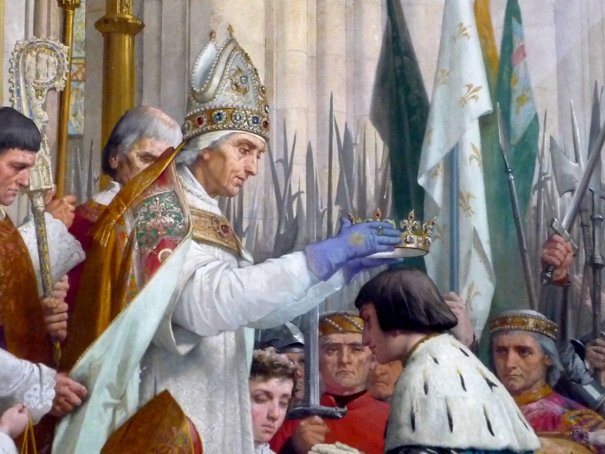 Detail of a painting about Jeanne d'Arc, Panthéon, paris, france